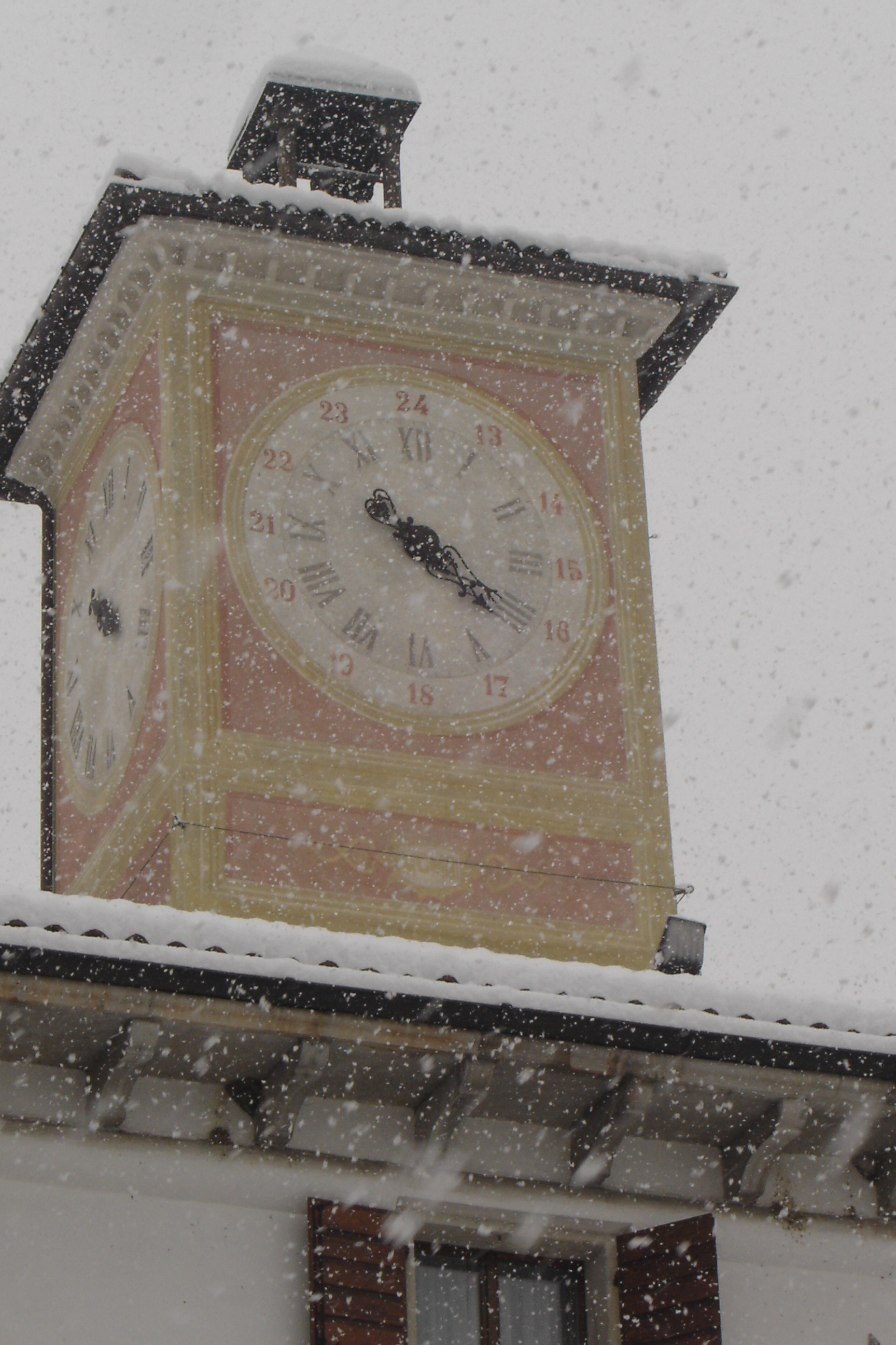 Clock tower of Mel's town hall